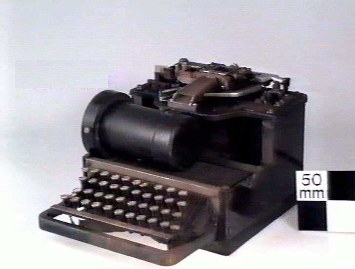 Telegraph Tape Perforator - Kleinschmidt, from around 1940s found in Museums Victoria Collections Device used to punch holes in paper tape as part of an electric telegraph system. Characters typed on the keyboard were converted according to a defined code into a pattern of perforations in the paper tape. The punched tape was fed through a transmitter which converted the pattern of holes into pulses of electrical current for transmission over the telegraph line to the receiving station. Physical Description Metal frame, painted black, supporting tape perforating mechanism at rear of object. Alphabetic and numeric keyboard at front of object. Connecting cable attached to rear of frame.